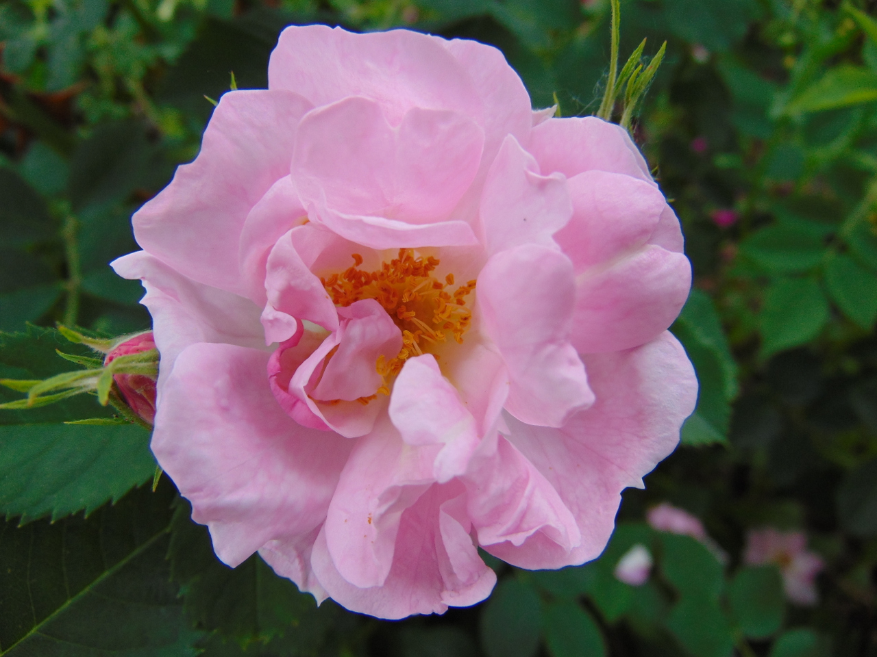 Jardin Botanique de Montréal, Rosa 'Abbotswood'